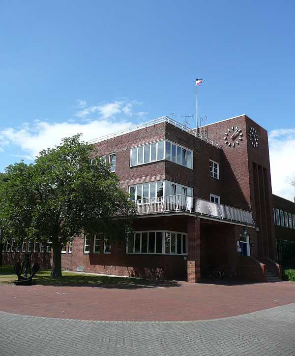 Main building of the sailor School Travemünde-Priwall - 2008